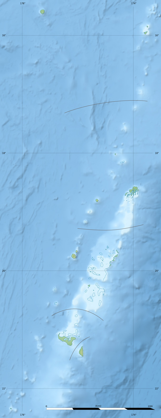 Blank physical map of Tonga, for geo-location purposes.